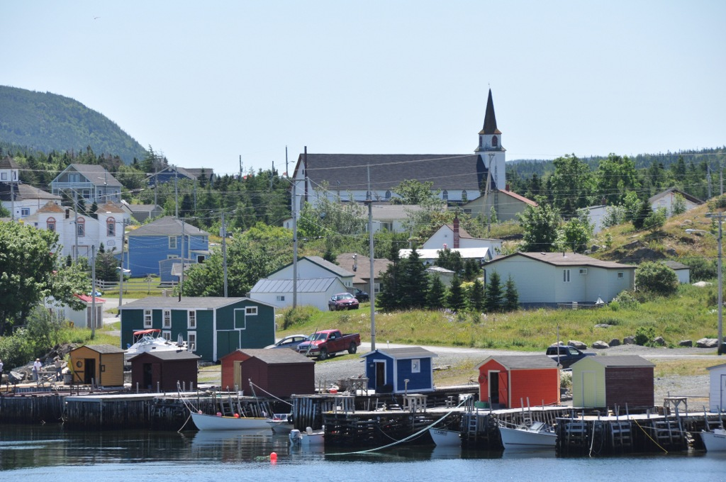 Town of New Perlican Heritage Conservation Zone Municipal Heritage District, New Perlican, Newfoundland.